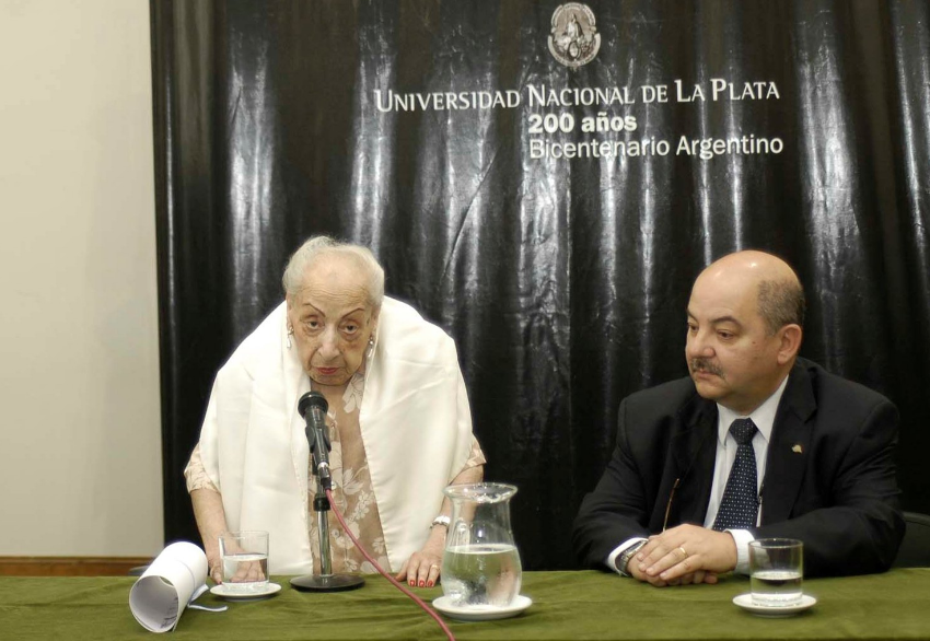 Florentina Gómez Miranda, receiving an honorary distinction from the National University of La Plata. At her side, Dr. Fernando Tauber, President of the university